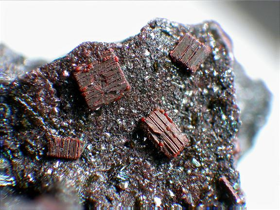 Fayalite crystal group, the biggest one is 0.5x0.5mm - Locality: Wannenköpfe, Ochtendung, Eifel region, Germany